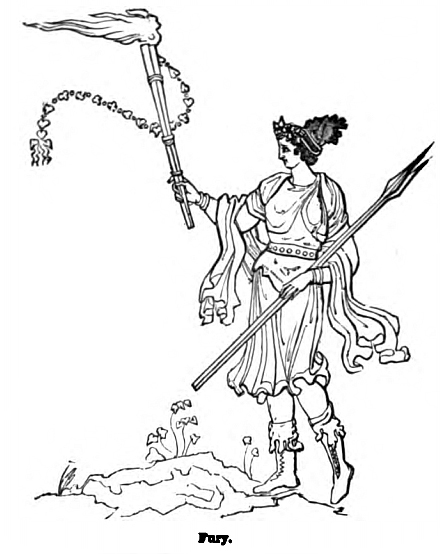 Fury (one of the Furies)